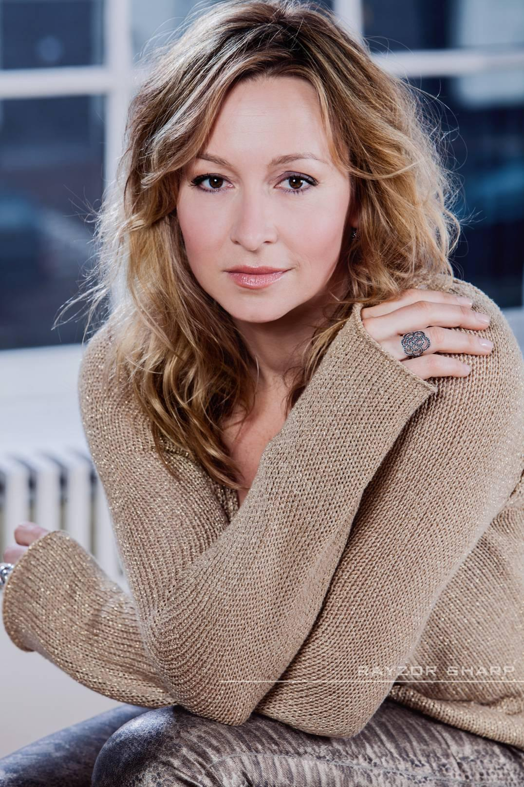 Cynthia Abma